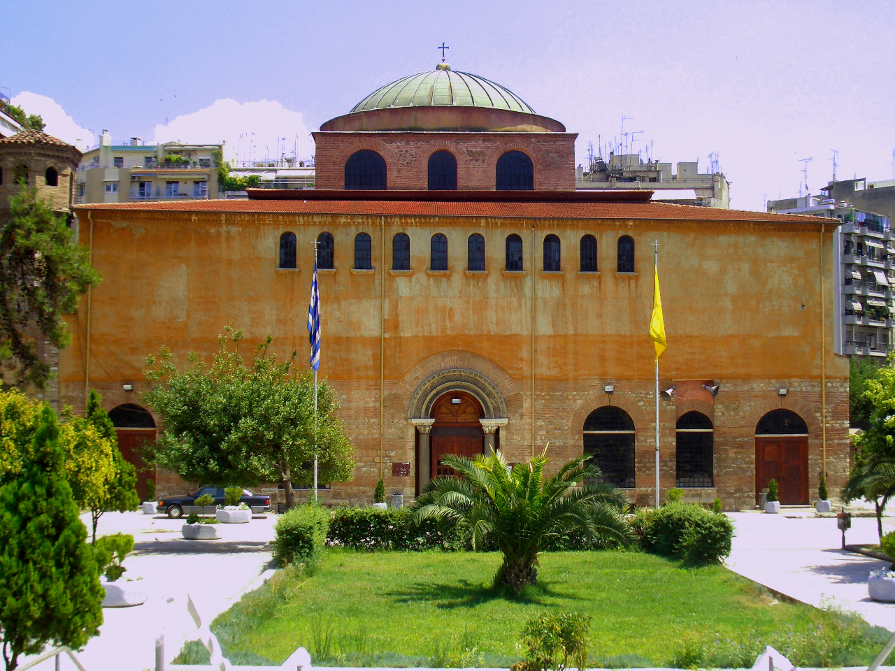 The Church of Holy Wisdom in Thessaloniki. Central side.